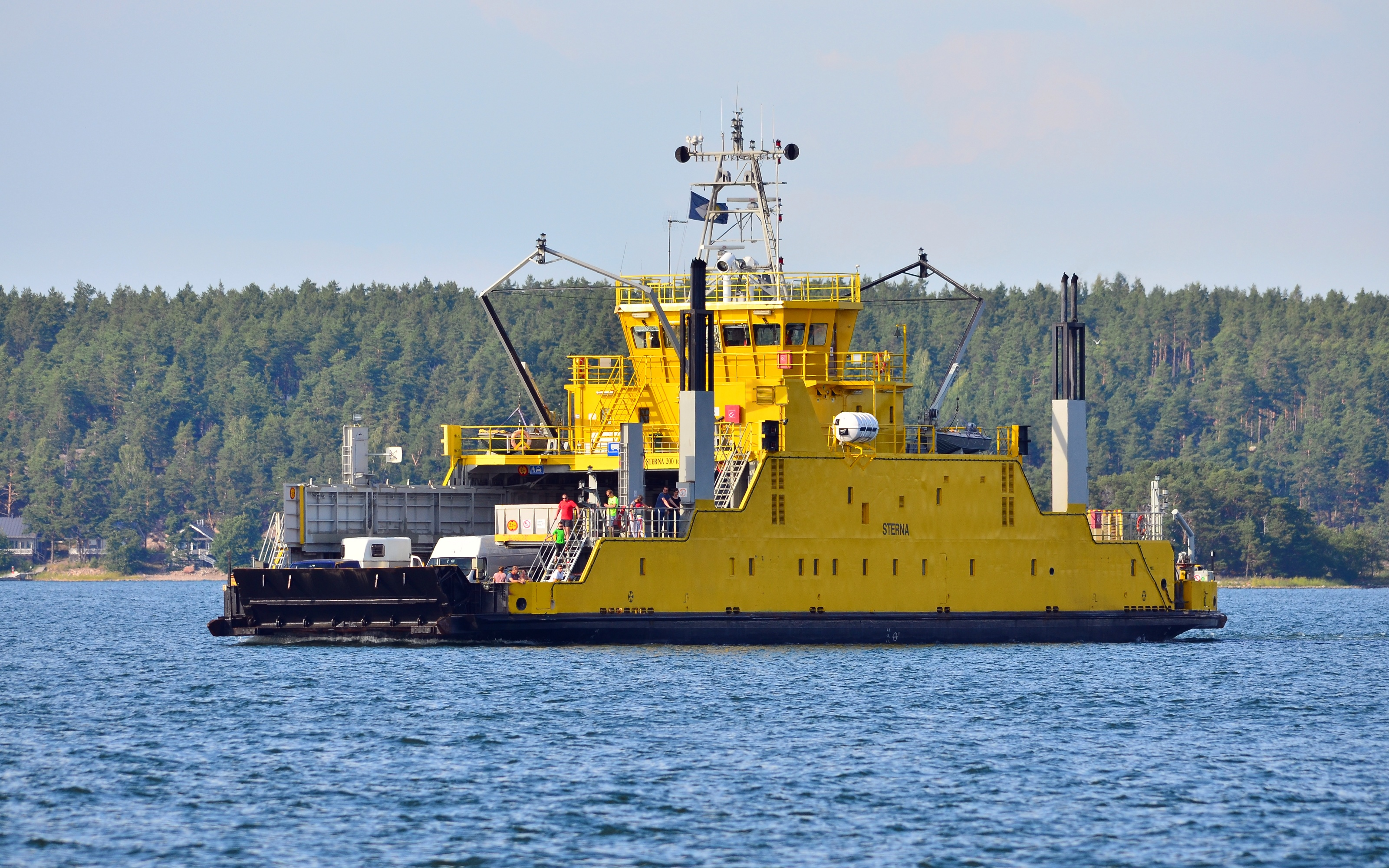 The road ferry Sterna between Pargas and Nagu, Finland.